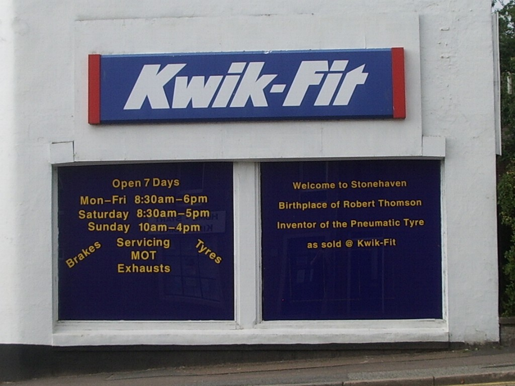 Stonehaven branch of Kwik Fit, showing a 'tribute' to inventor R. W. Thomson.